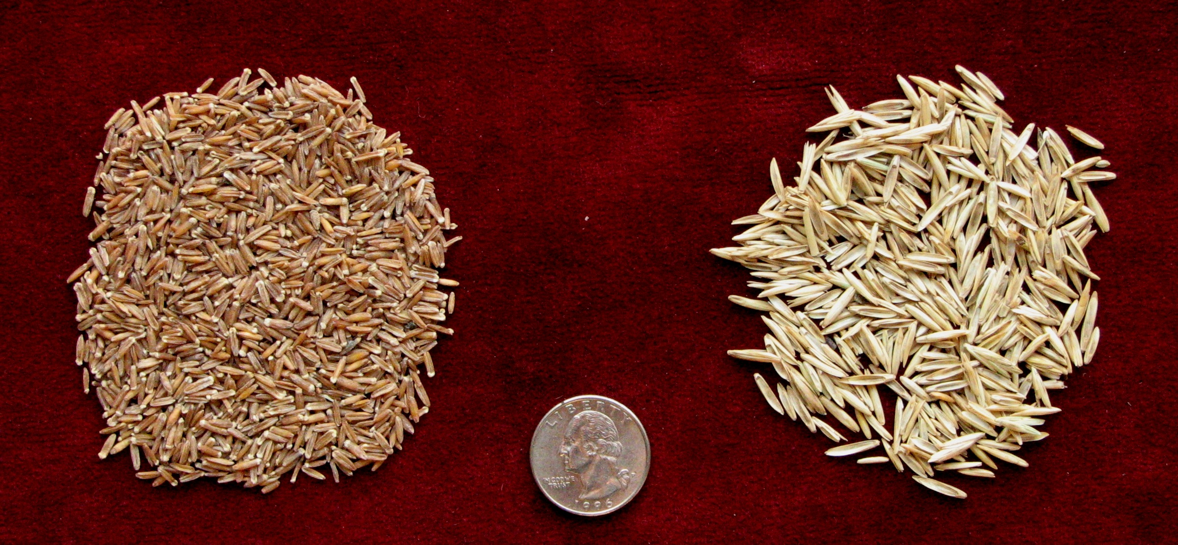 Intermediate wheatgrass seeds in hulls (right) and out of hulls (left)